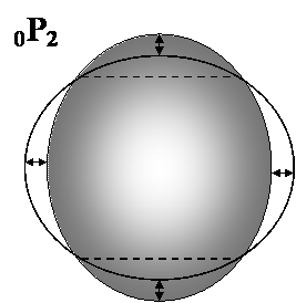 A scheme of motion during fundamental spheroidal oscillation of the Earth. The nodal lines are given by dashed lines.;Other information: none